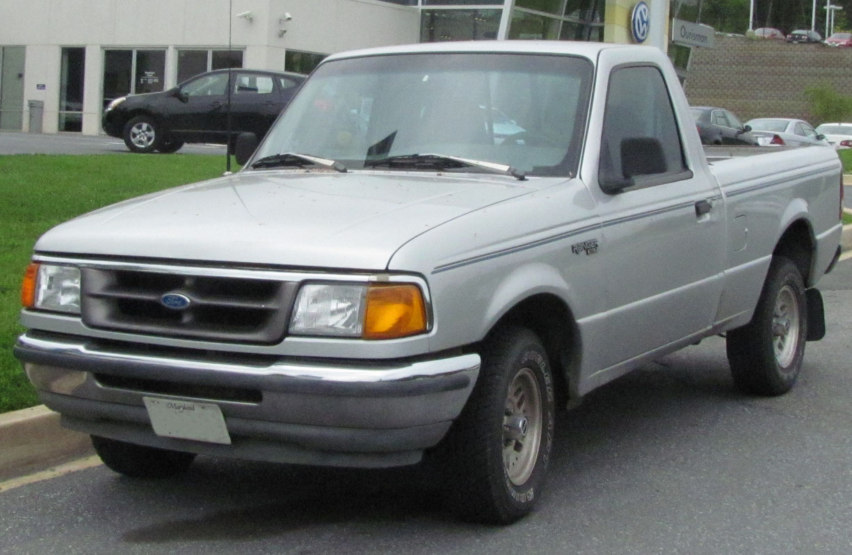 1993-1997 Ford Ranger photographed in Laurel, Maryland, USA.